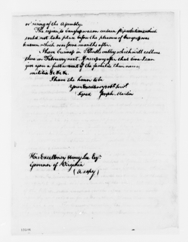 Letter from General Joseph Martin to Governor Henry Lee of Virginia, The Thomas Jefferson Papers, Correspondence, The Library of Congress, Washington, D. C.